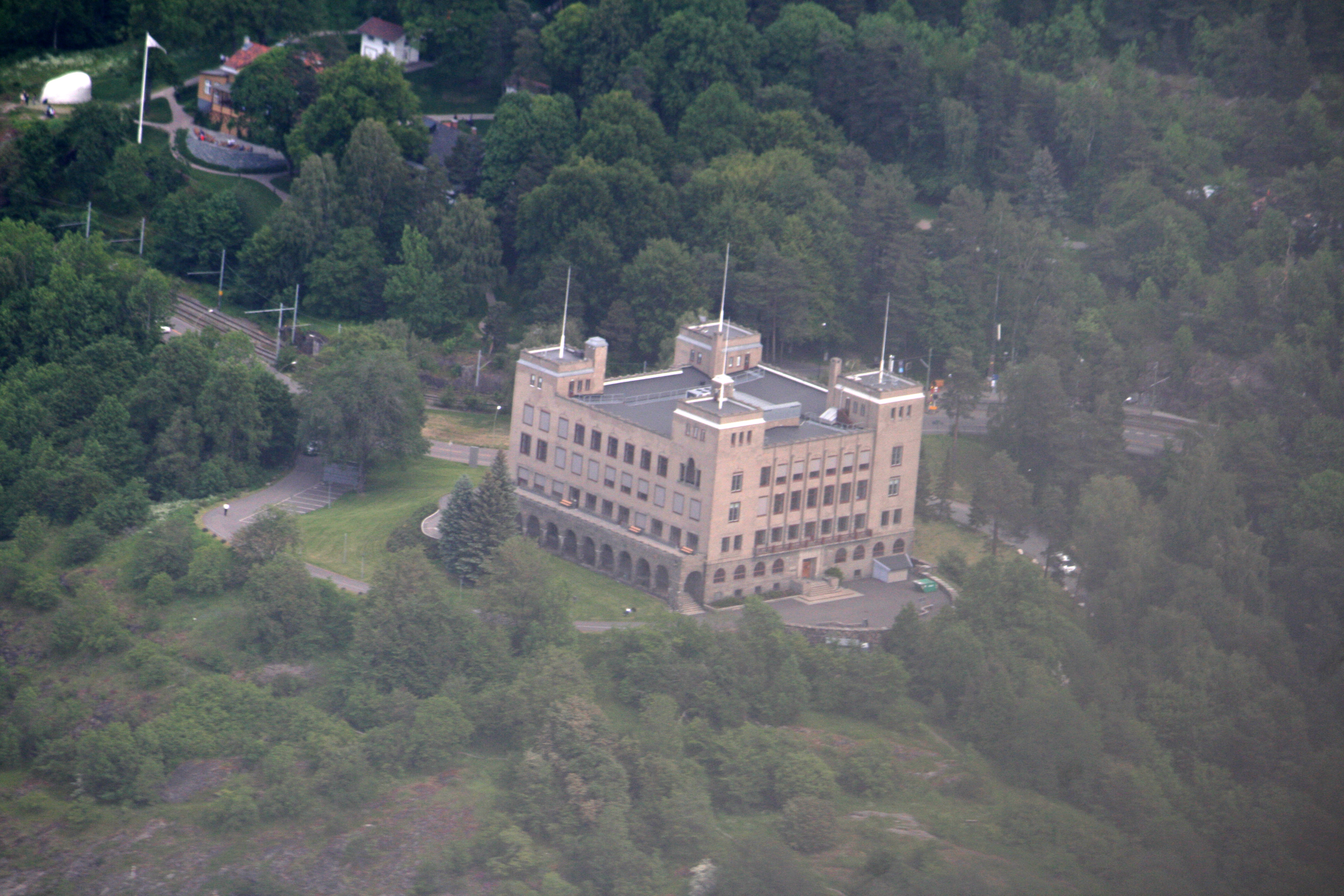 Aerial photograph from June 14th, 2015.